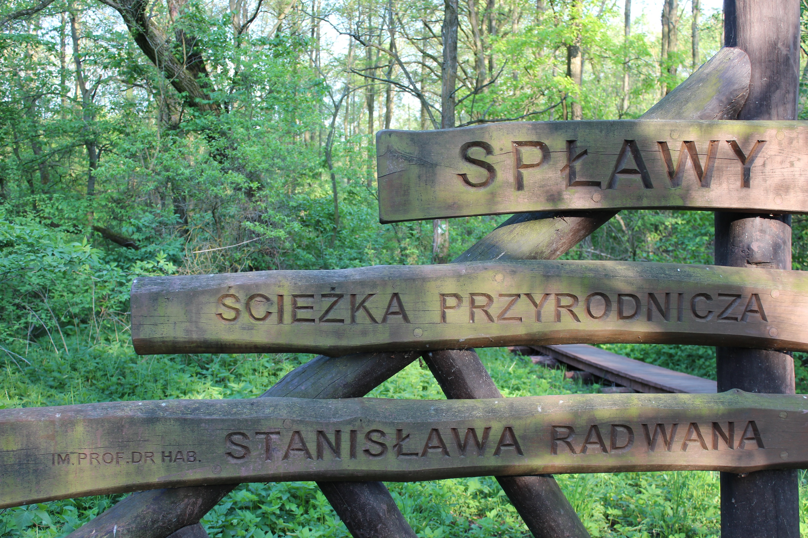 Polesie National Park - "Spławy" Trail